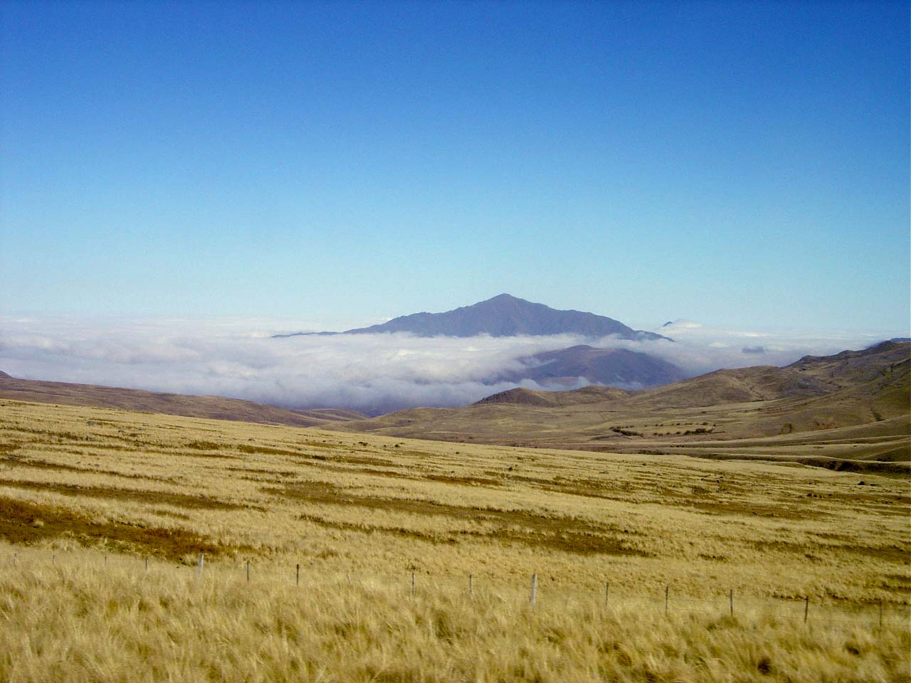 Pampa in Argentina Tafi del Valle over the clouds, Tucuman Province, Argentina